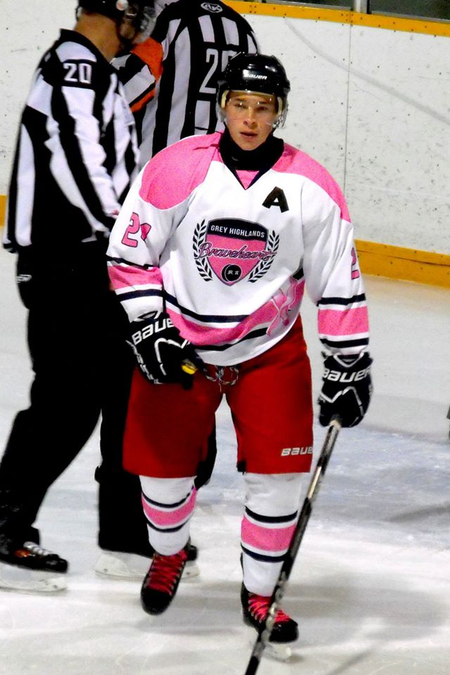 This photo was taken by Devan Mighton during the 2014-15 GMHL season.